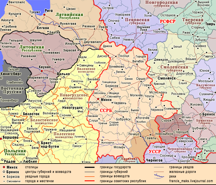 map showing the territory of Belarus after its change in 1926 Беларуская (тарашкевіца): Другое ўзбуйненьне БССР (1926)